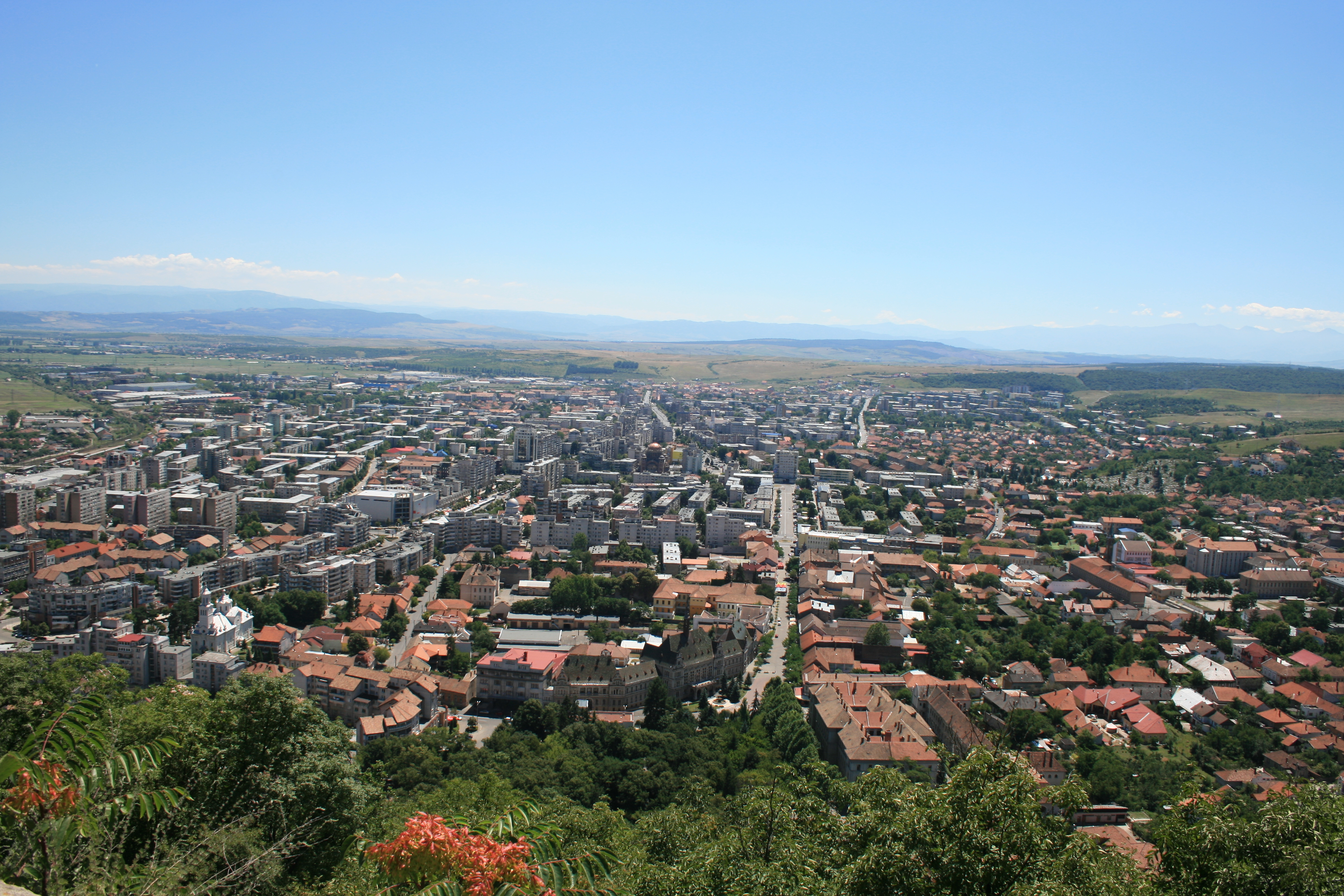 Panoramic view of the town Deva from the medieval citadel.